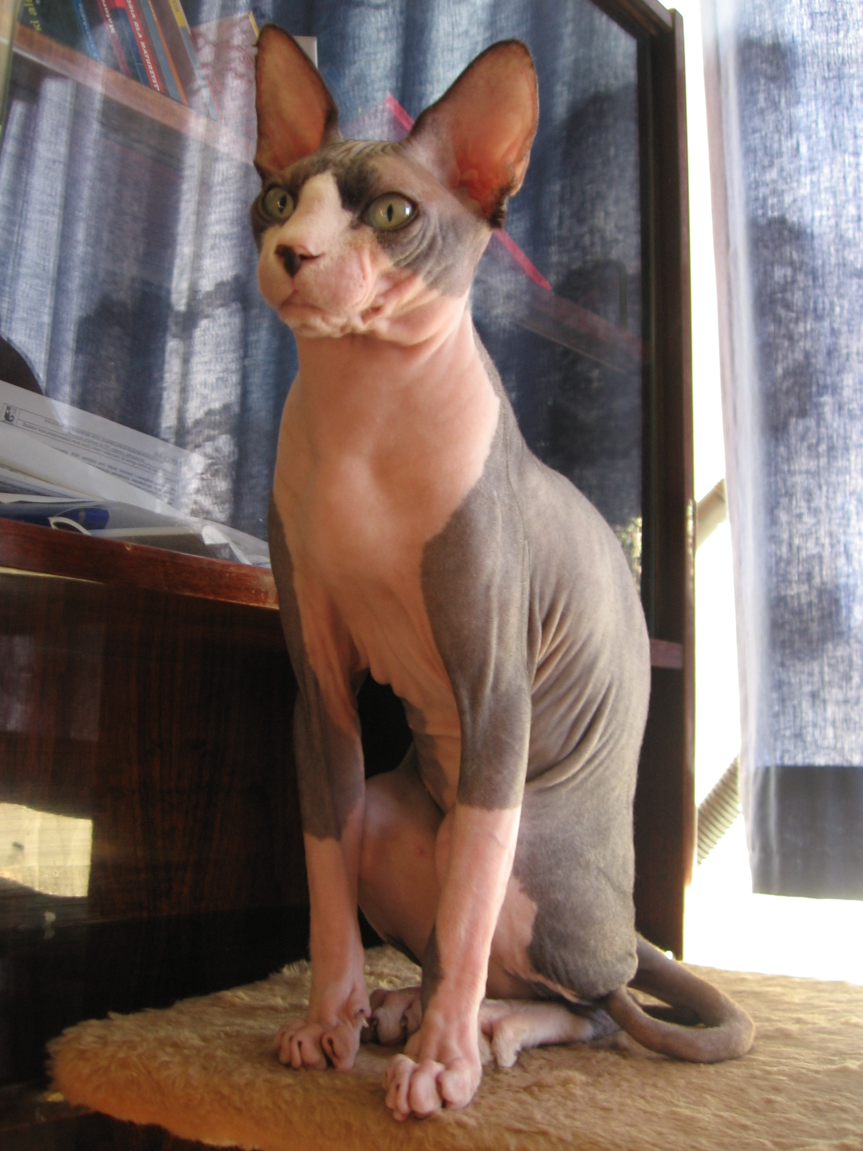 Sphinx cat posing for camera.